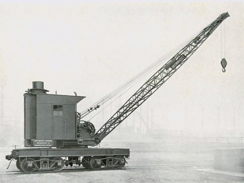 Brown Hoisting catalog, 1919 photo The Brown Hoisting Machinery Company of Cleveland, Ohio, offered this very typical steam-powered locomotive crane with lattice boom at the turn of the century.